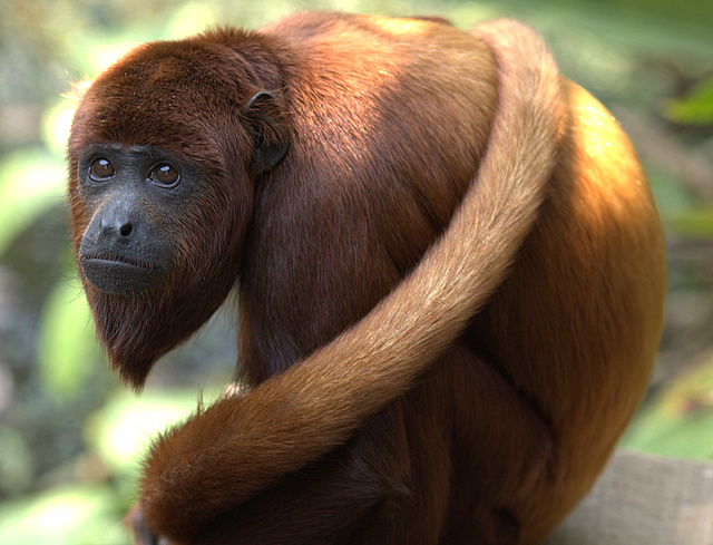 Alouatta seniculus in the Amazon rainforest in Padre Cocha, Iquitos, Loreto, Peru